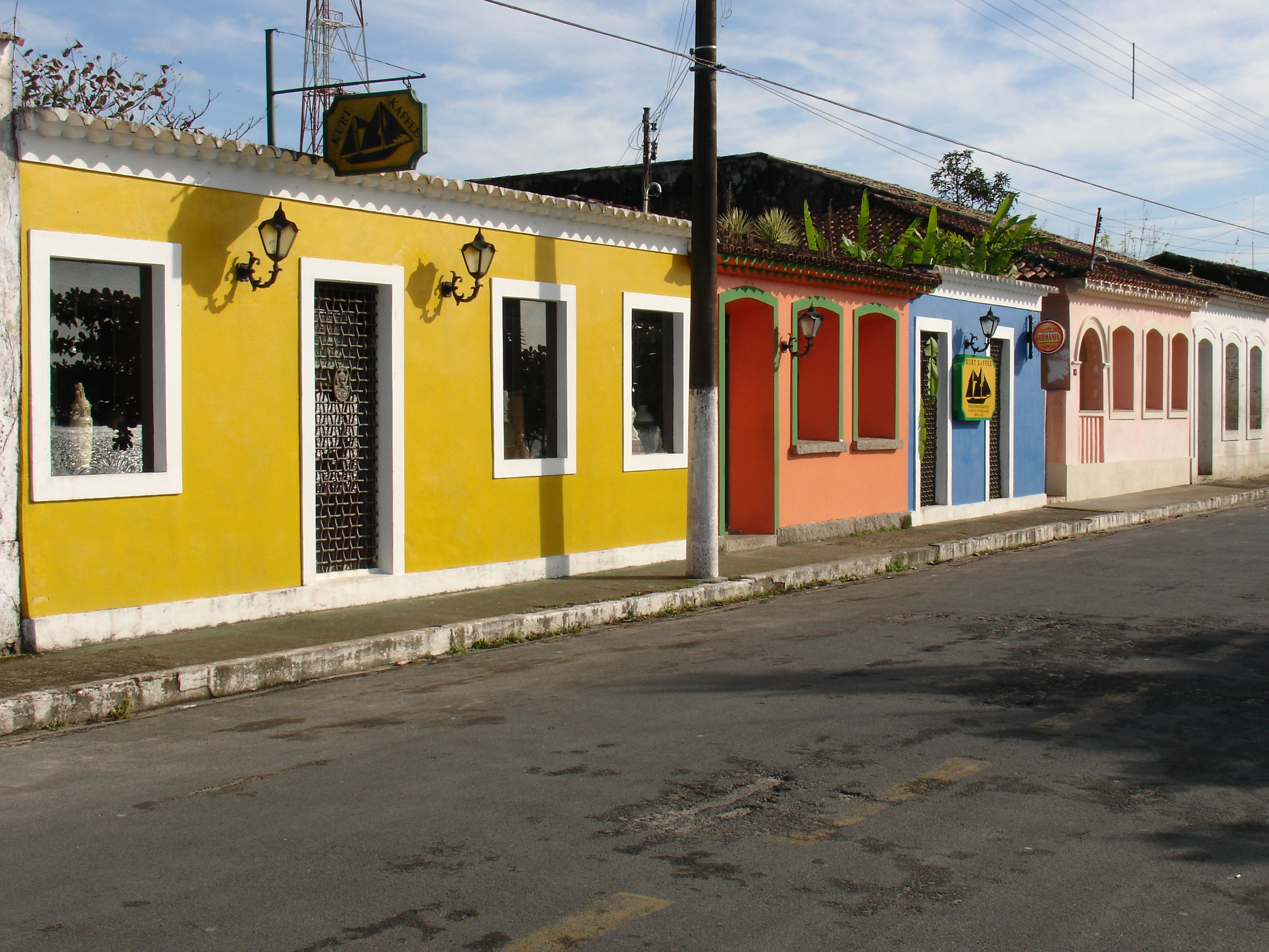 Houses inf the historical center of Cananéia, São Paulo, Brazil.